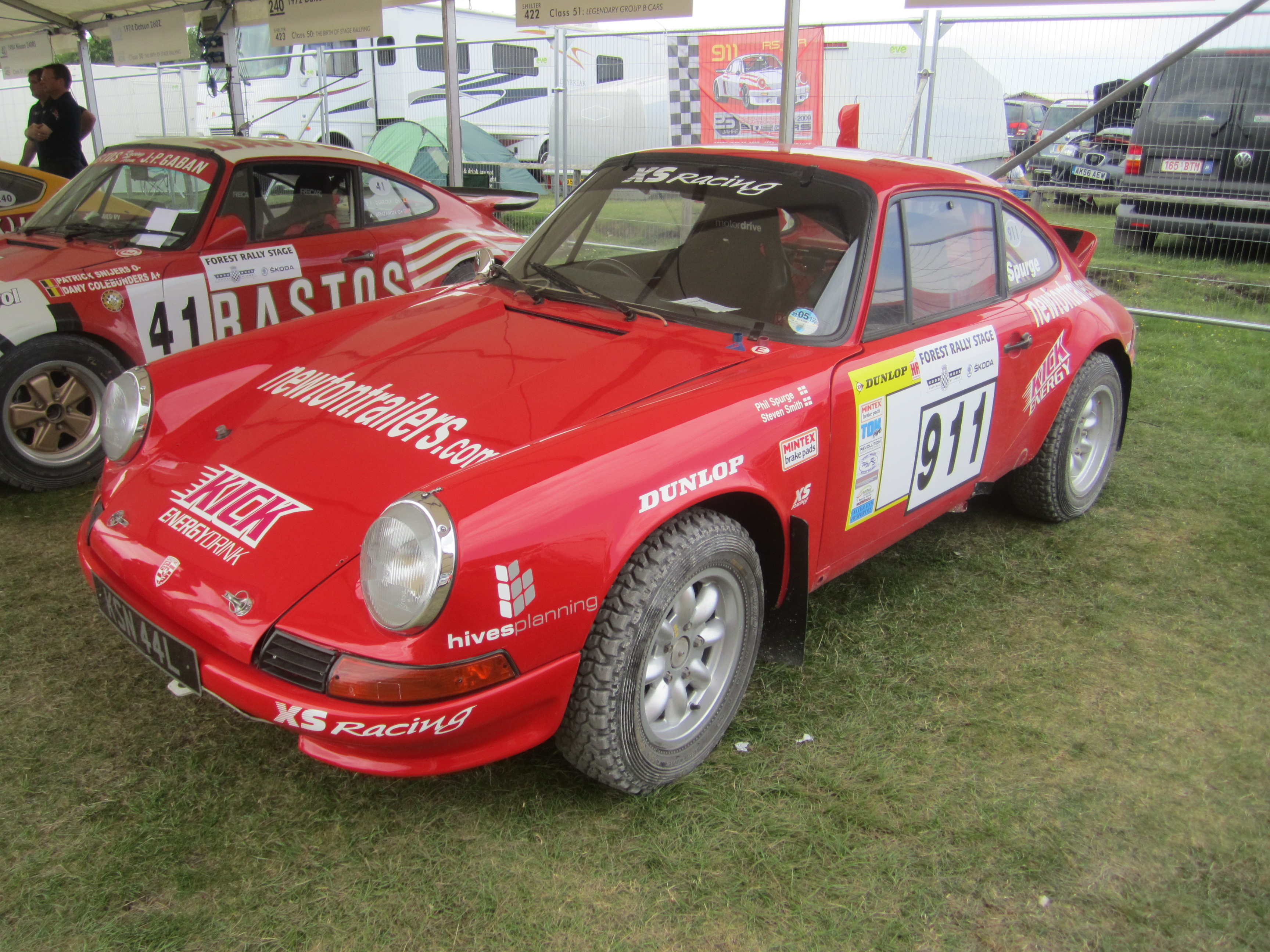 2.7litre flat 6 Taken at the Goodwood Festival of Speed England 2011- Forest Rally Stage Contender